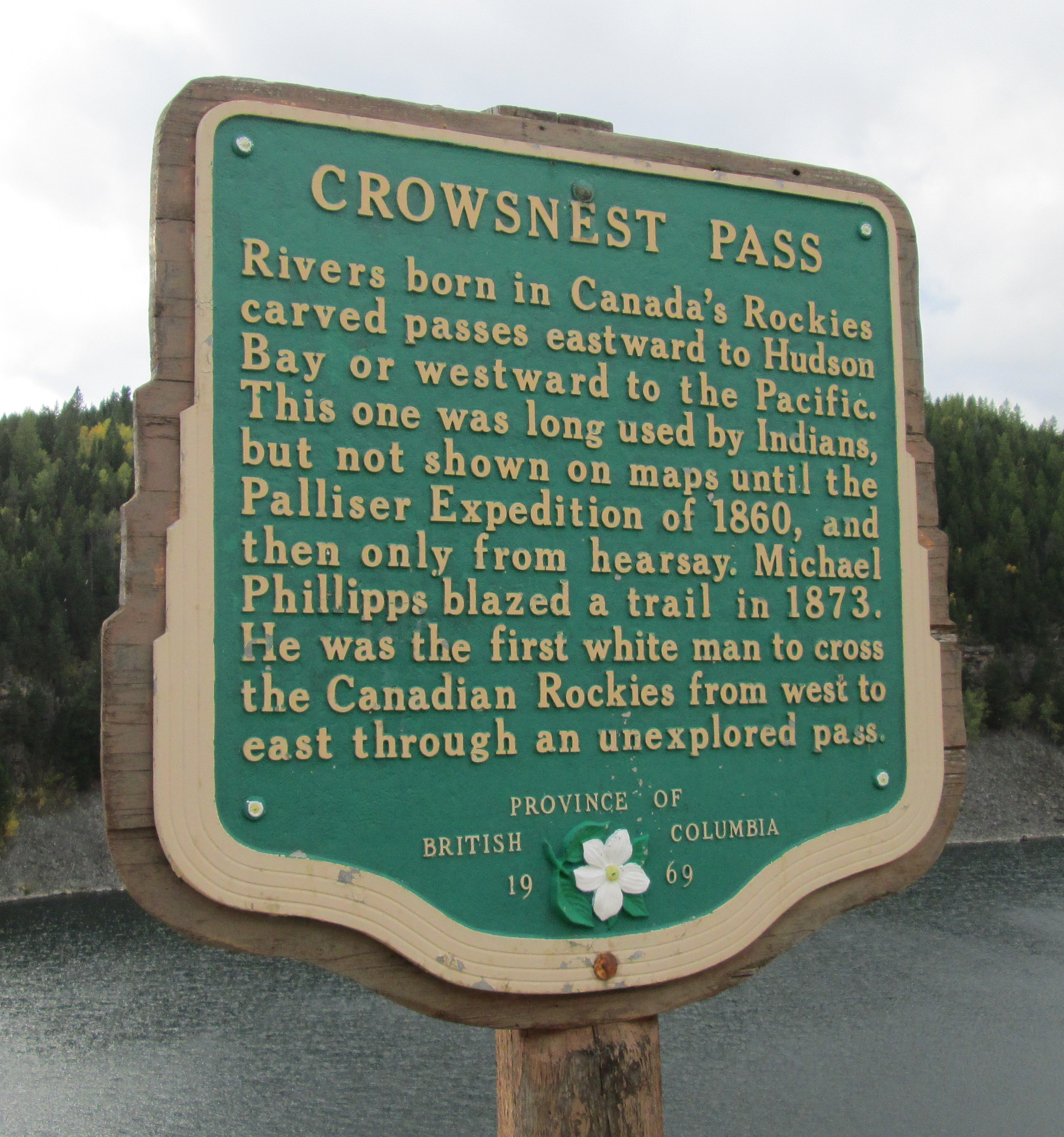 Crowsnest Pass Highway 3 Province of British Columbia 1969 sign describes how, "Rivers born in Canada's Rockies carved passes eastward to Hudson Bay or westward to the Pacific. This one was long used by Indians, but not shown on maps until the Palliser Expedition of 1860, and then only from hearsay. Michael Phillips blazed a trail in 1873. He was the first white man to cross the Canadian Rockies from west to east through an unexplored pass."